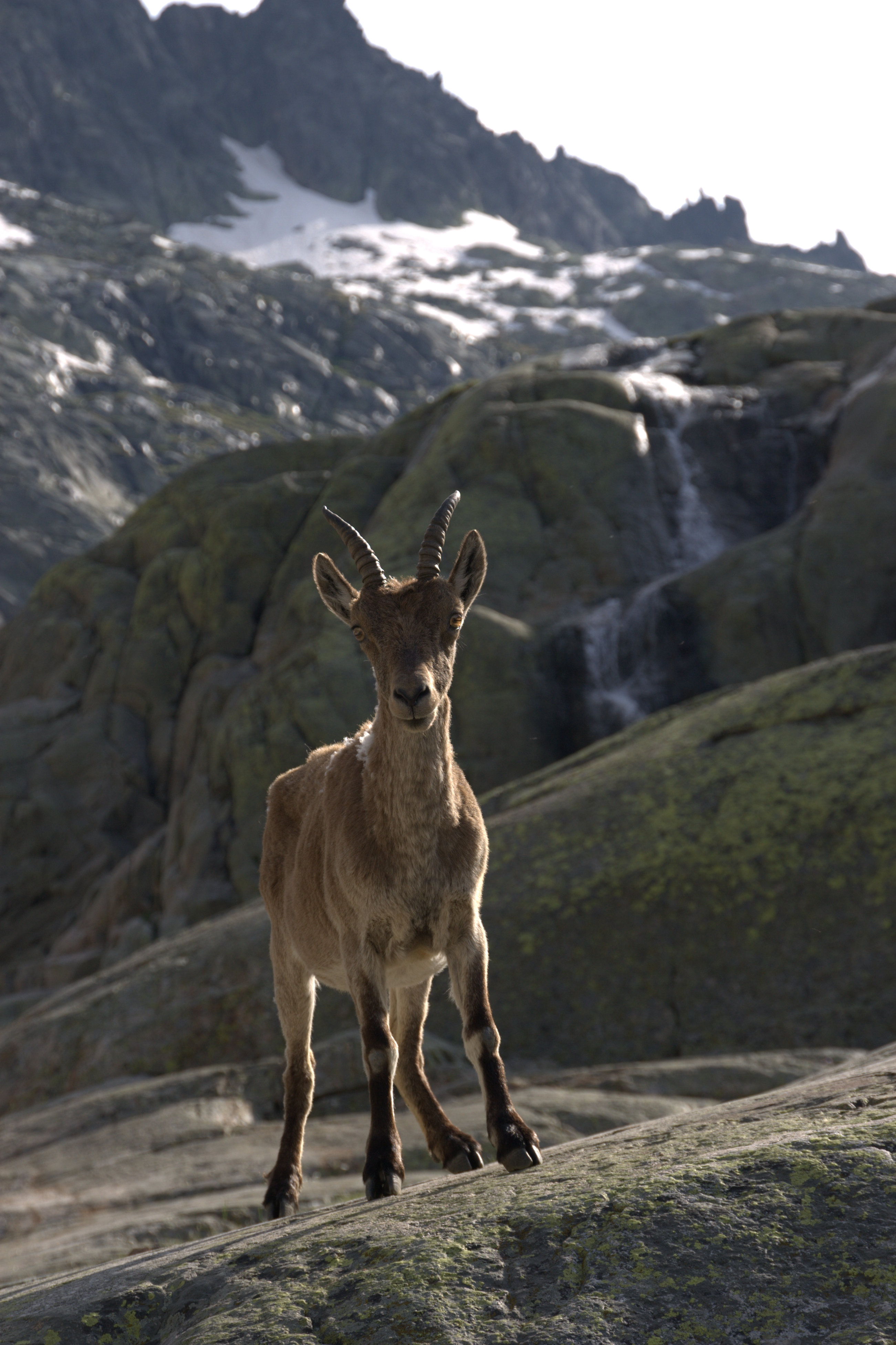 Circo de Gredos is a glaciar circus over plutonic rocks. It is in the Sierra of Gredos in the centre of the Spain.